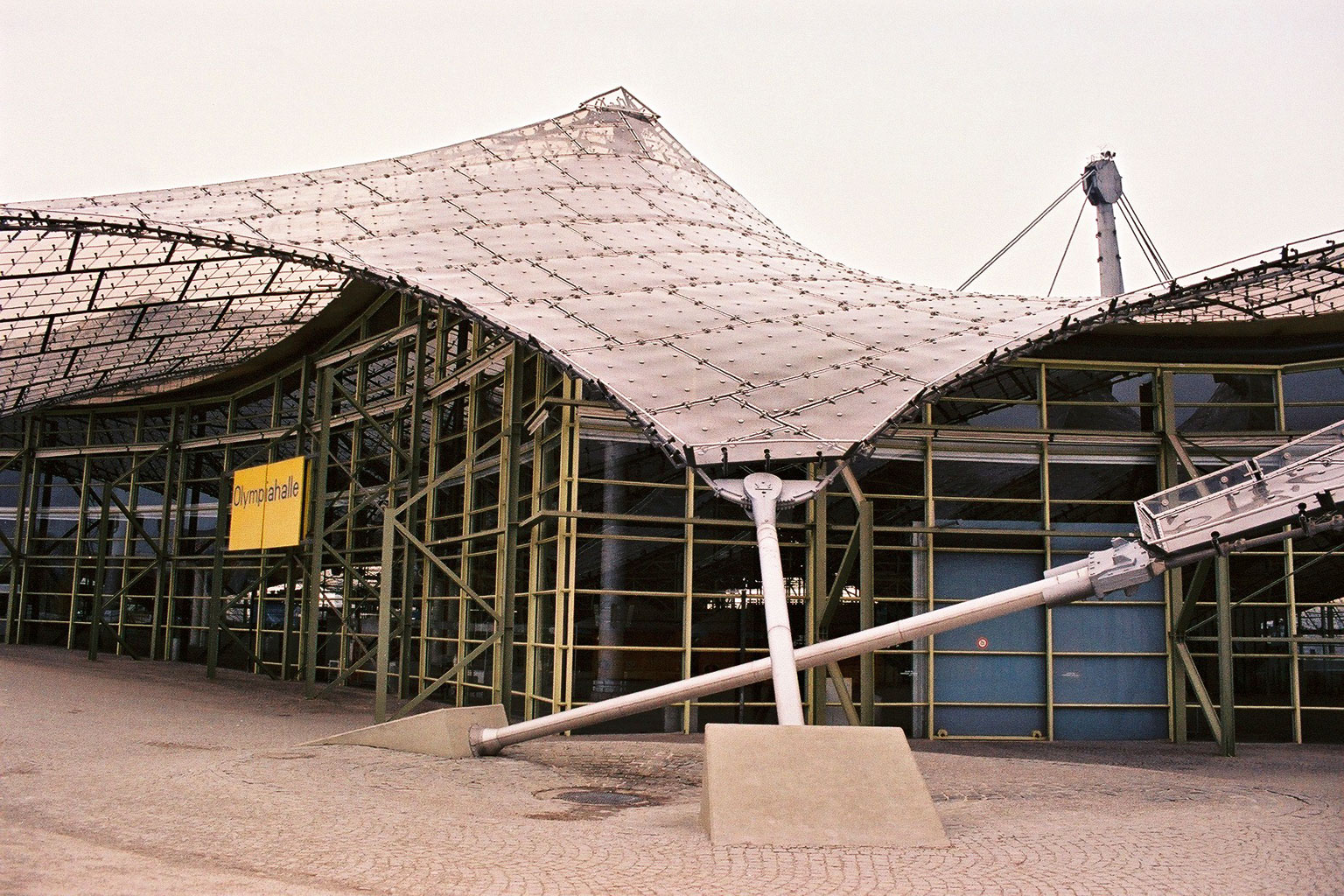 Olympiapark in München (Munich), Germany Olympic Hall, detail